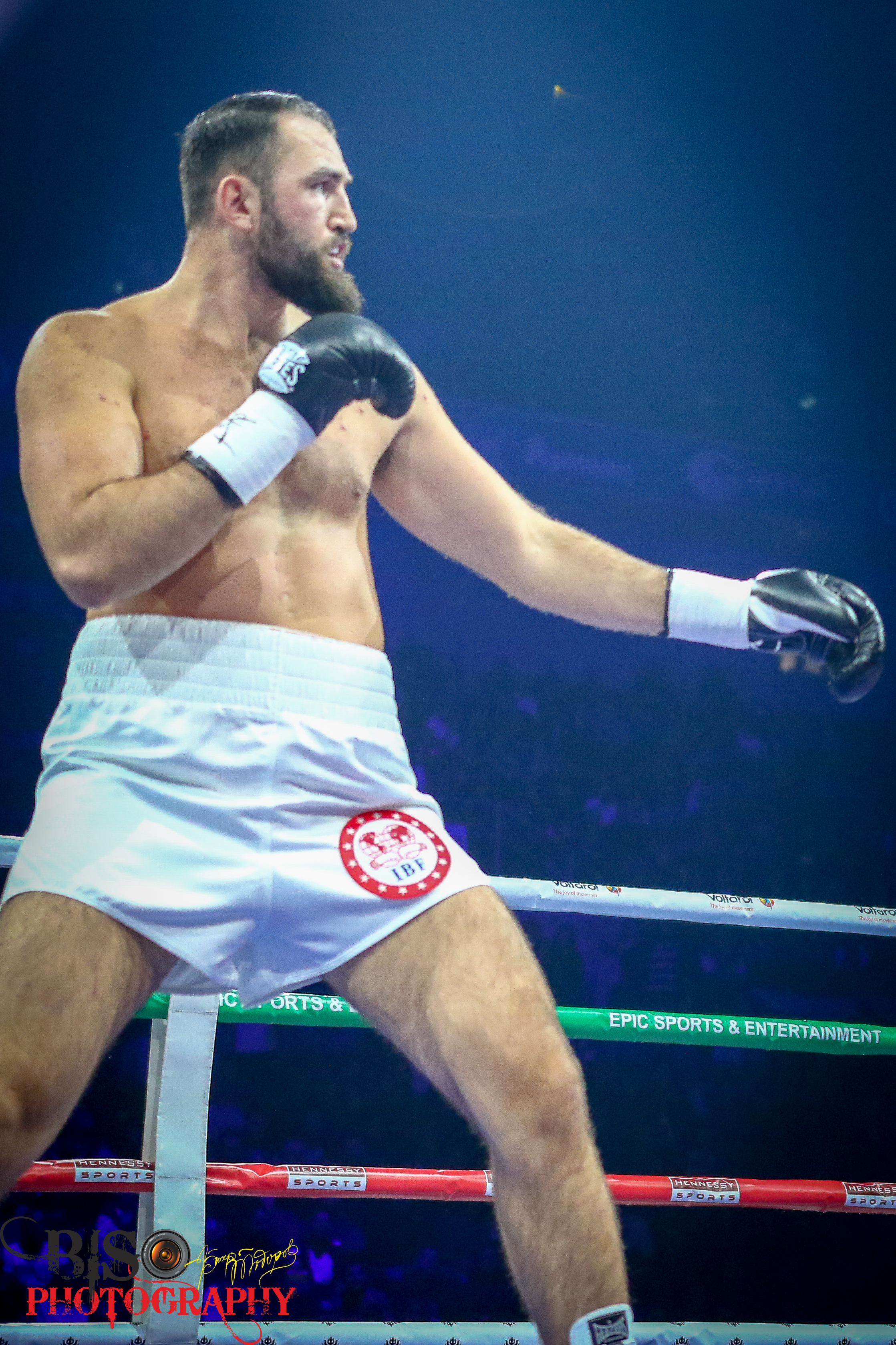 Hughie Lewis Fury (born 18 September 1994) is a British professional boxer. He has held the British heavyweight title since May 2018, and has challenged once for the WBO heavyweight title in 2017. As an amateur he represented England at the 2012 Youth World Championships, winning a gold medal in the super-heavyweight division and becoming the first British boxer to do so.